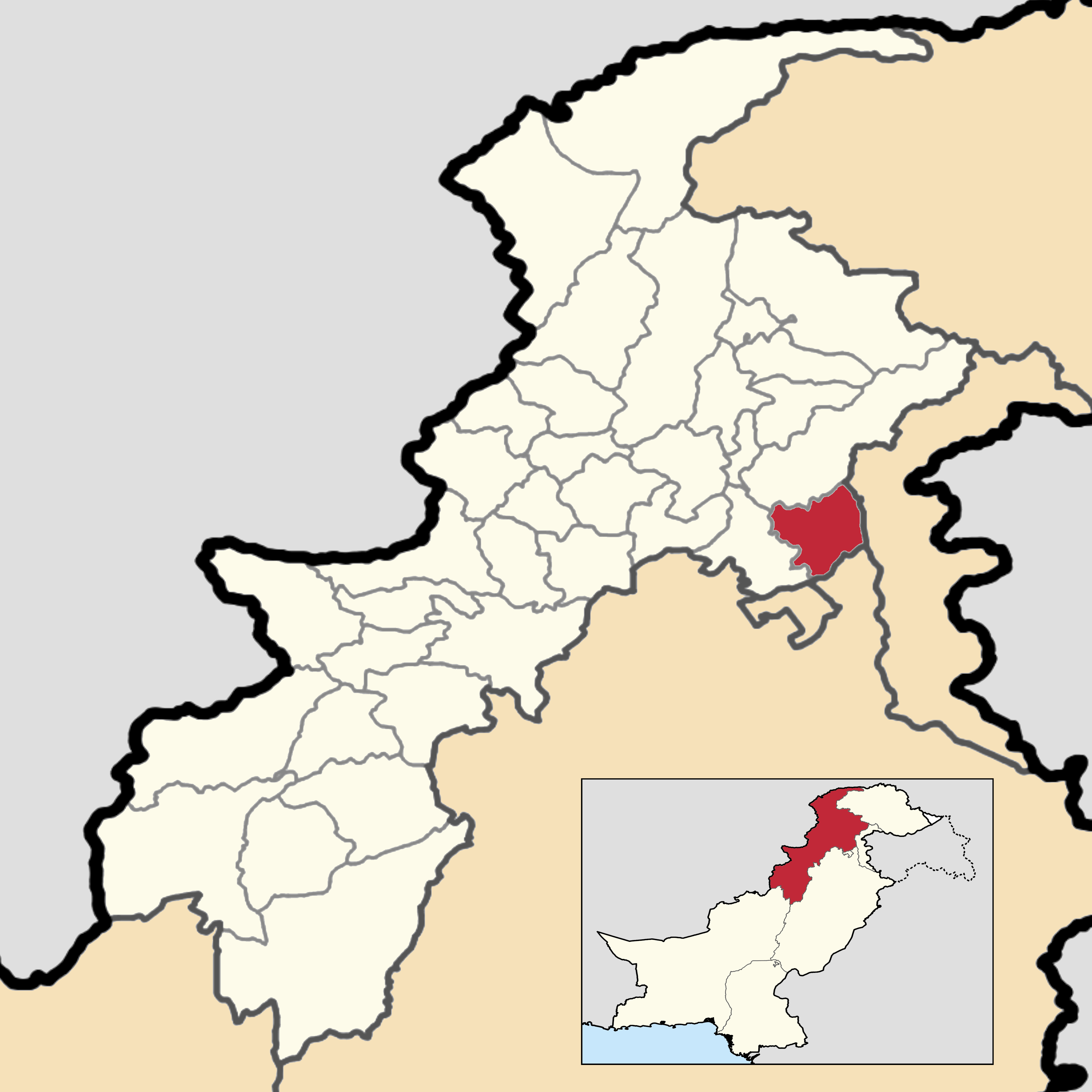 This is a map showing the location of Abbottabad District within Khyber Pakhtunkhwa Province. You can find information about the sources used on this map, showing every district in Khyber Pakhtunkhwa Province. This map and its borders are up to date as of June 16, 2020.